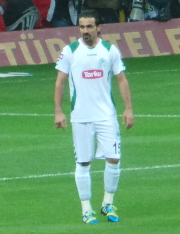 Ergün Teber